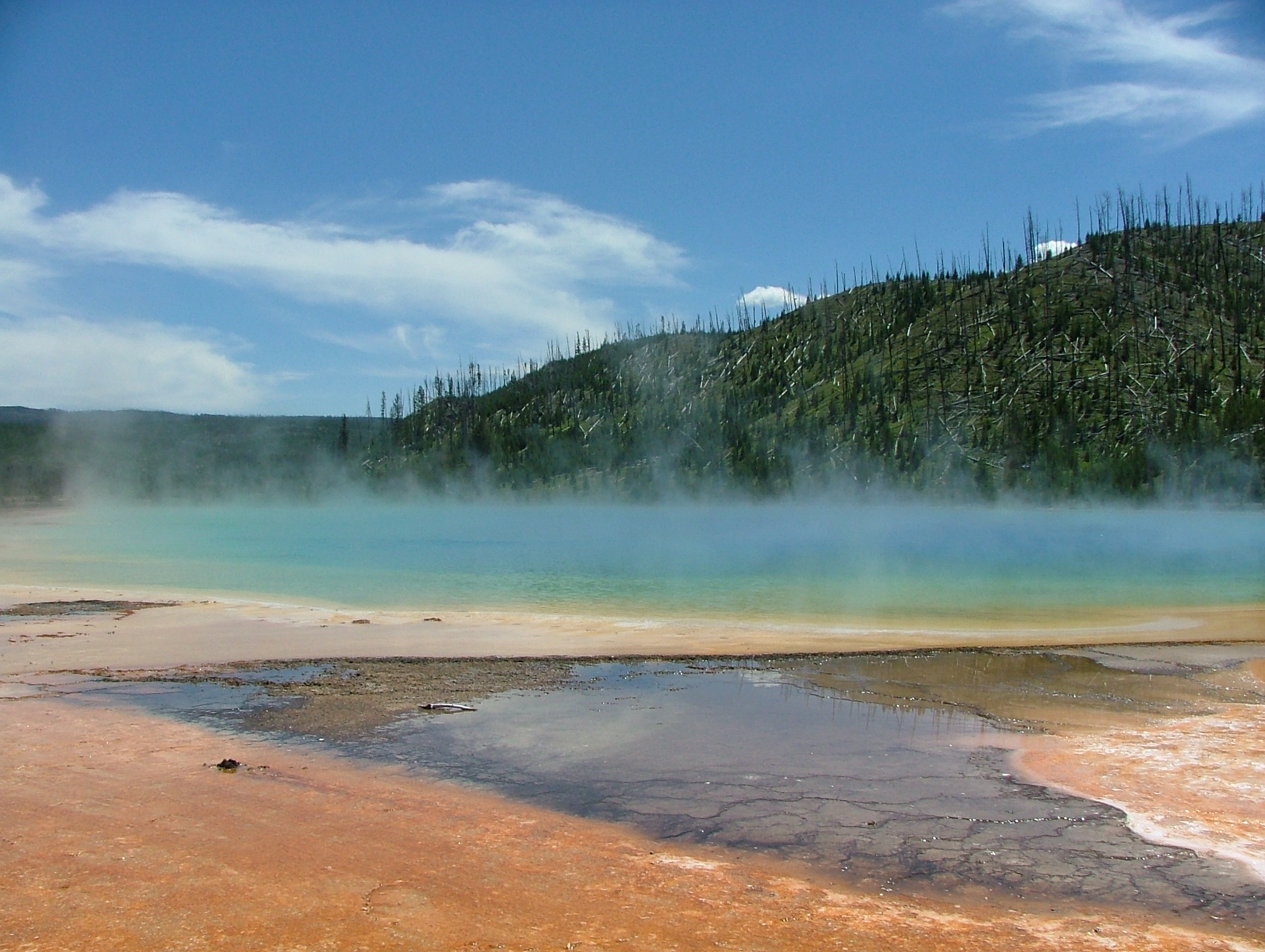 Grand Prismatic Spring, Yellowstone National Park